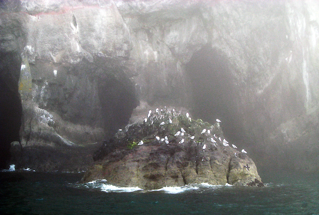 The Gobbins The Gobbins cliffs at Islandmagee. This was a popular tourist destination in the first half of the twentieth century as a path, almost three miles long, had been built around the cliffs. This had been constructed by railway magnate Dean Berkeley Wise, attracting people to take the train from Belfast to Whitehead, opening in 1902. The path remained a hit with tourists until the outbreak of the Second World War forced its closure. It reopened for a time after the war but closed for good in 1962. Most of the path has now crumbled into the sea but it is possible to make out certain sections and features. Recently ambitious plans to reinstate the path have been unveiled - . This is a view of the cliffs from the water as seen from the Bangor Boat ( and 6847243 ) which runs regular trips to the cliffs in June each year, primarily to view the many birds that use the area as a nesting site. Birds seen include Puffins, Razorbills, Guillemots, Shags and Kittiwakes. Note that this picture was taken during on a very misty evening and visibility is normally much better. See also 6847301 for some related images.